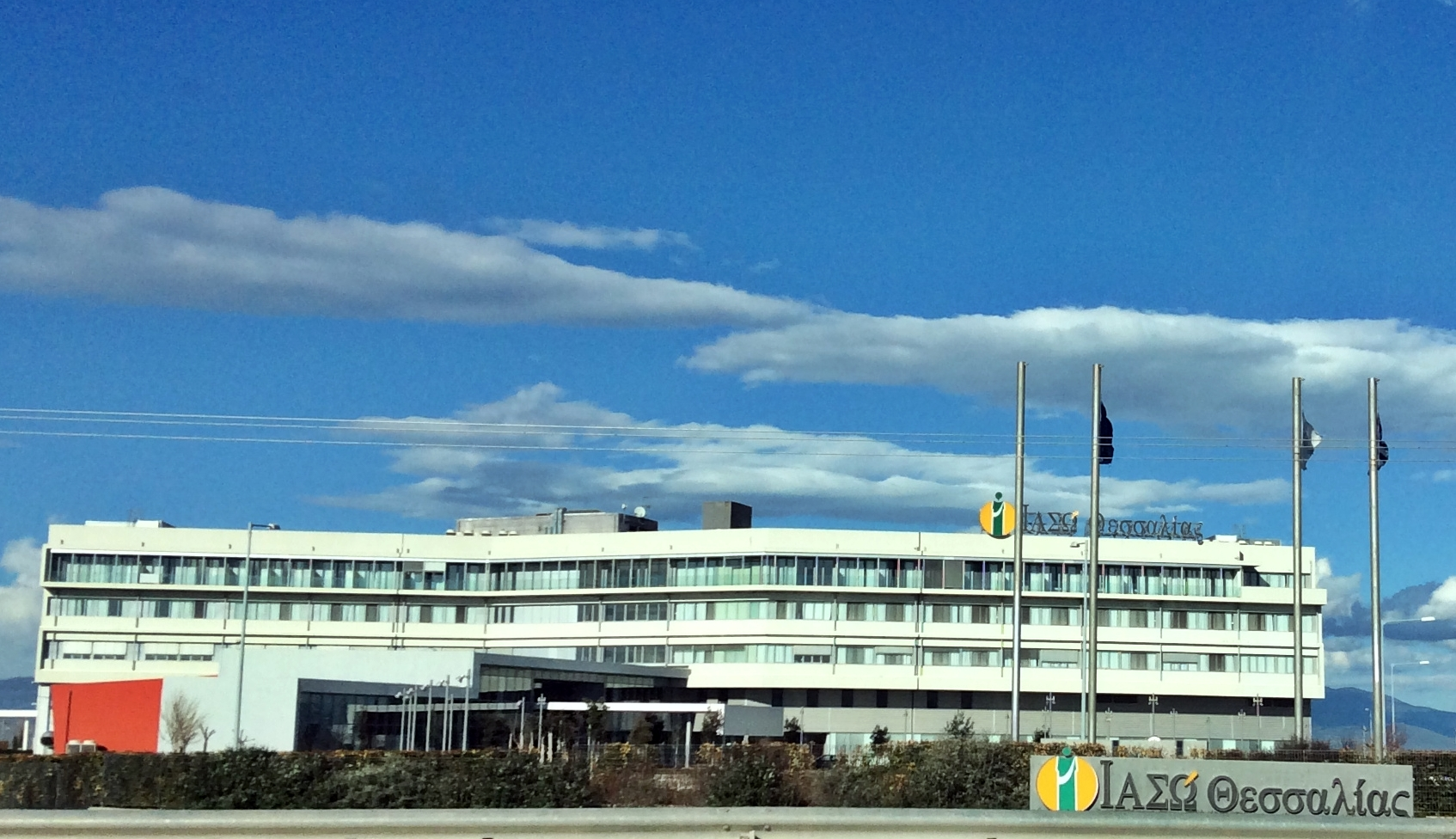 Iaso General Hospital of Thessaly